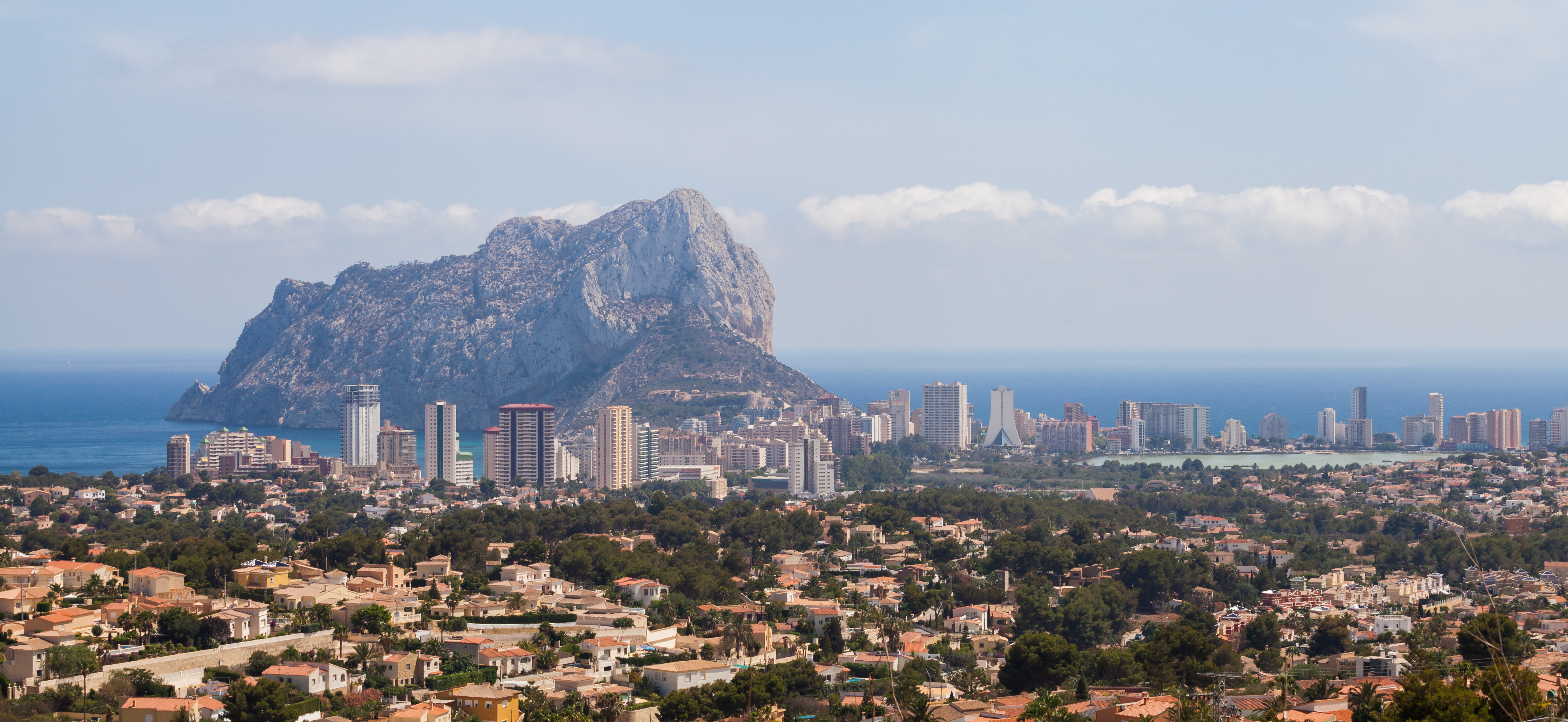 Rock of Ifach, Calpe, Spain